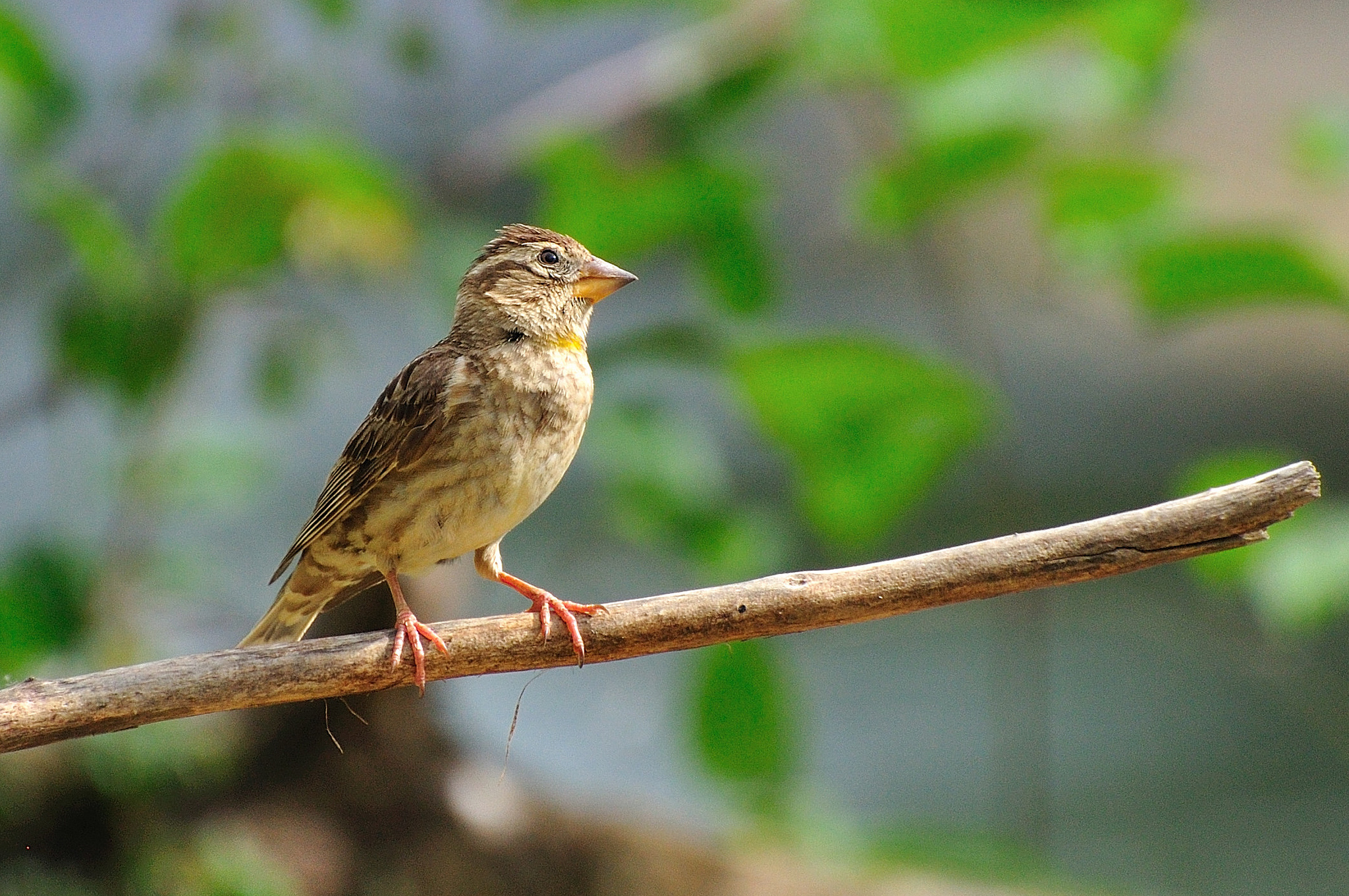 A Rock Sparrow in Ariege, Midi-Pyrenee, France.